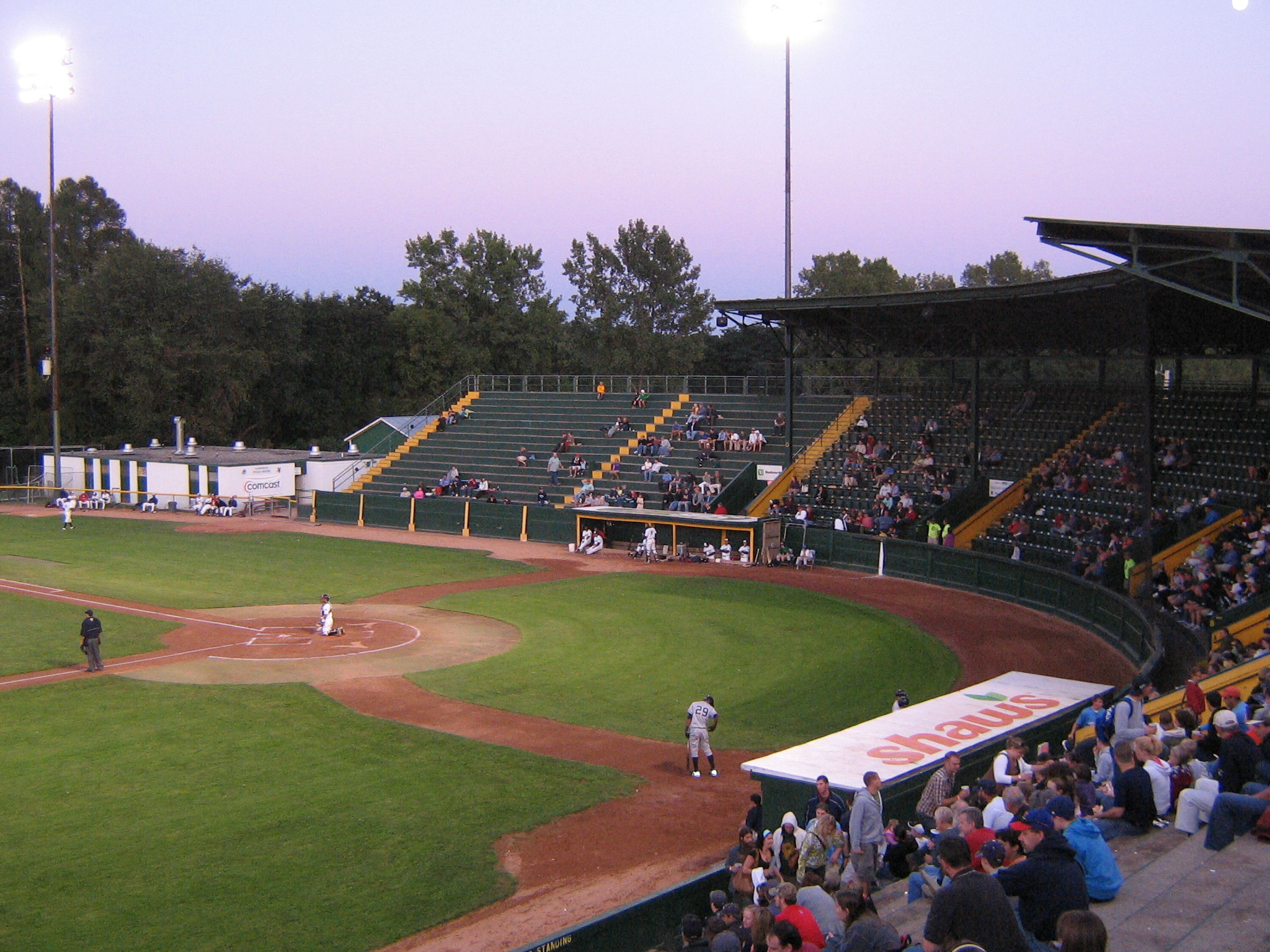 Centennial Field in Burlington VT, home of a Washington Nationals farm team, the Lake Monsters.